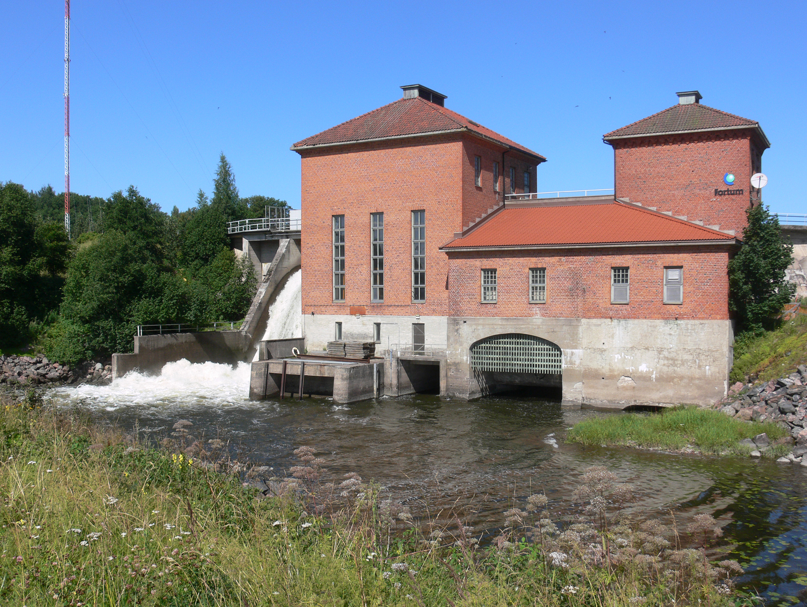 Peltokoski hydroeletric power plant in Raseborg, Finland